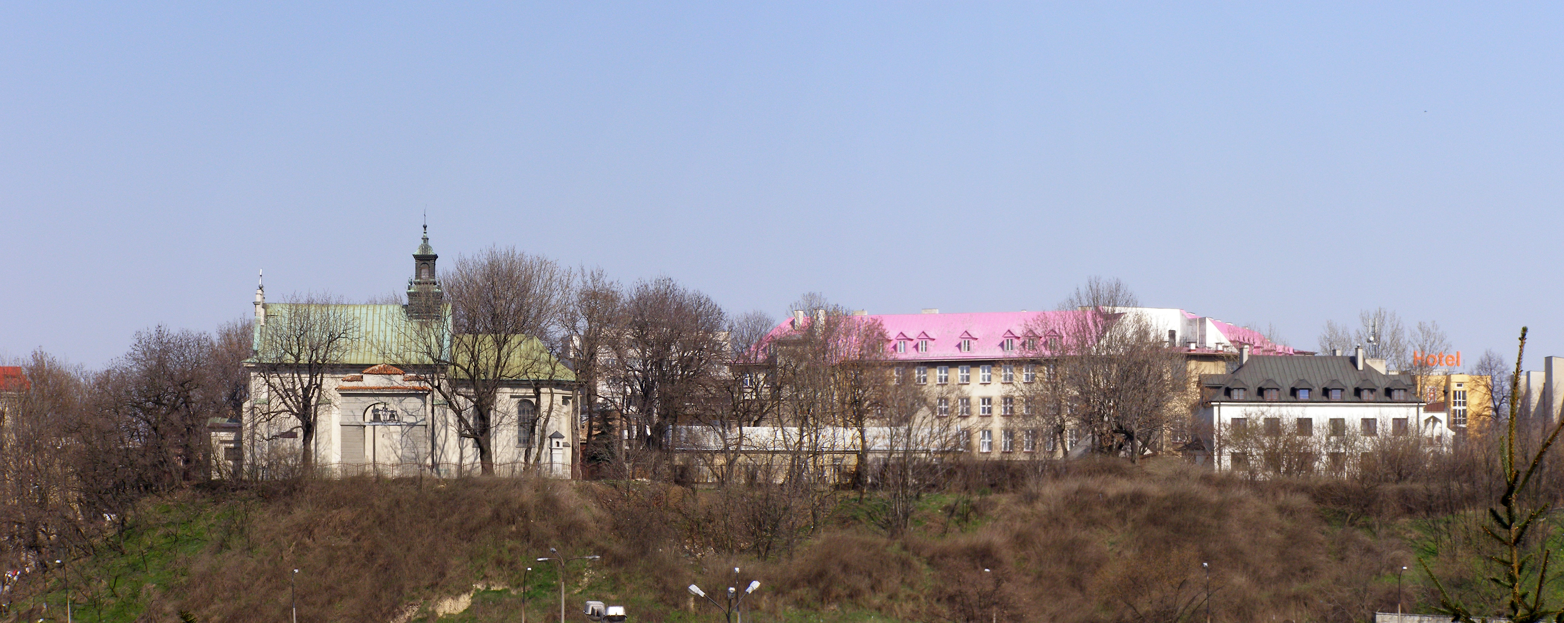 A panorama of Czwartek Hill in Lublin and Church of St. Nicolaus.